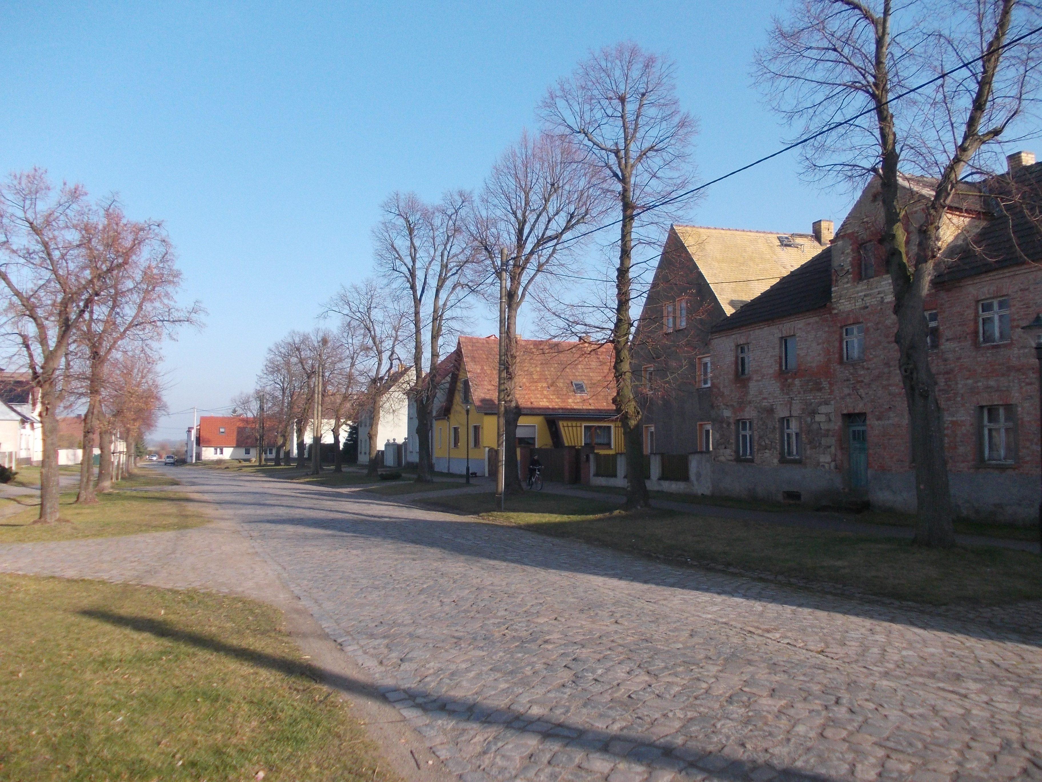 An den Linden street in Losswig (Torgau, Nordsachsen district, Saxony)